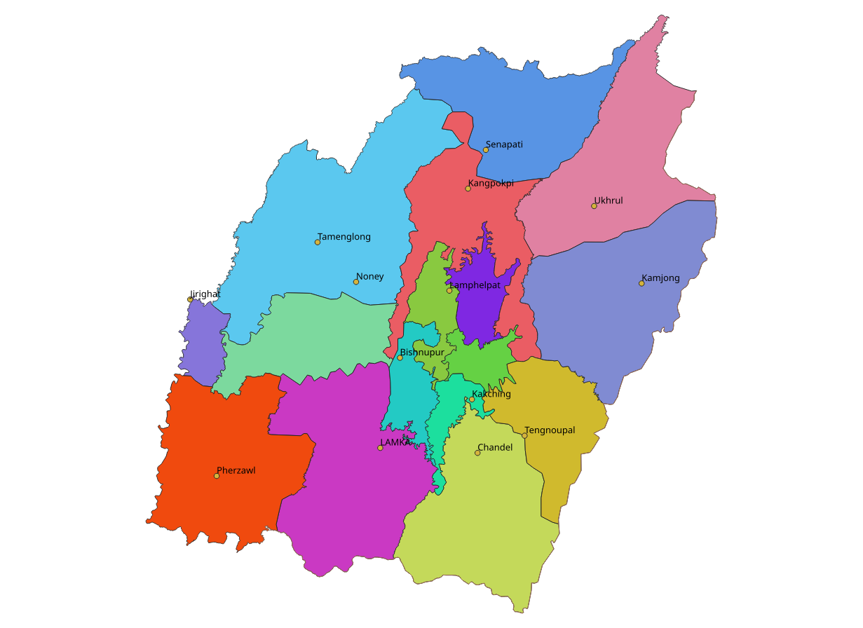 OSM data ; QGIS